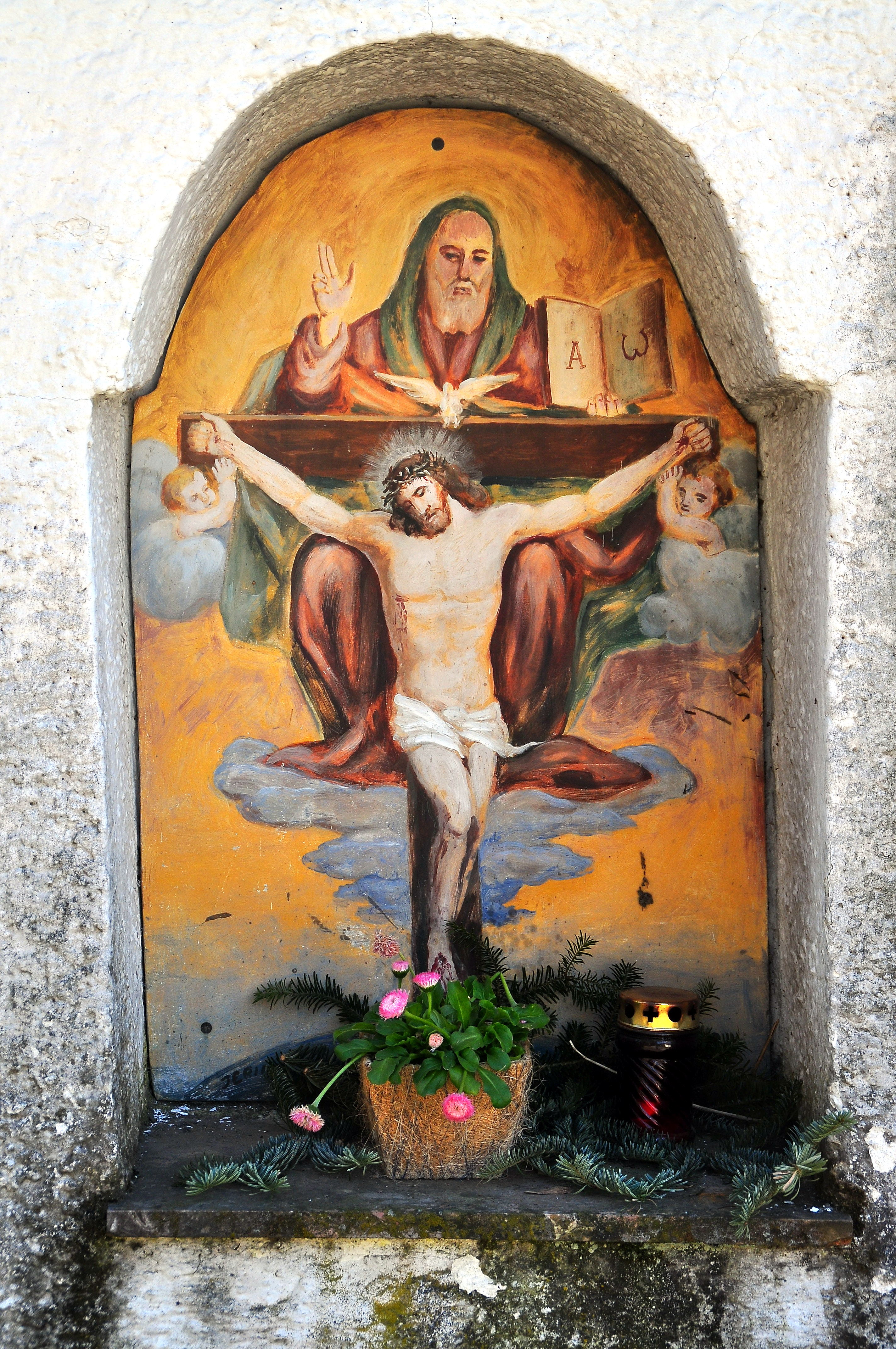 Alcove painting in the wayside shrine at Migoriach in the 13th district "Viktring" of the Carinthian capital Klagenfurt on the Lake Woerth, Carinthia, Austria